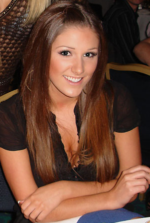 Models added a touch of glamour to the Golden Joystick awards